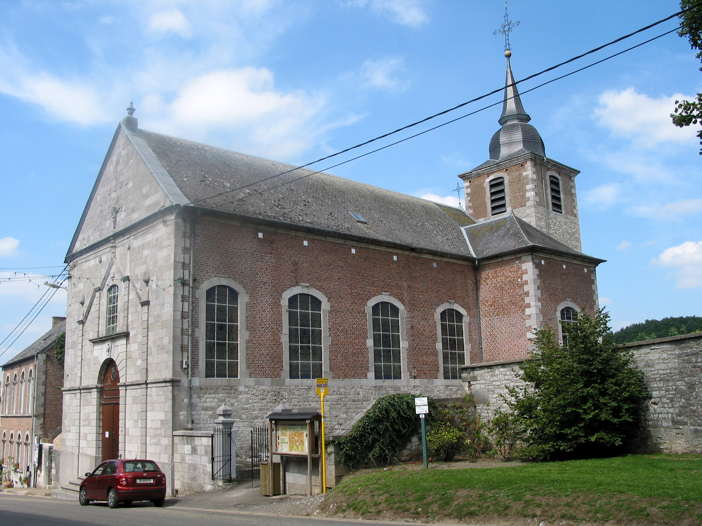 Thon-Samson (Belgium), the St. Remy church (1780).